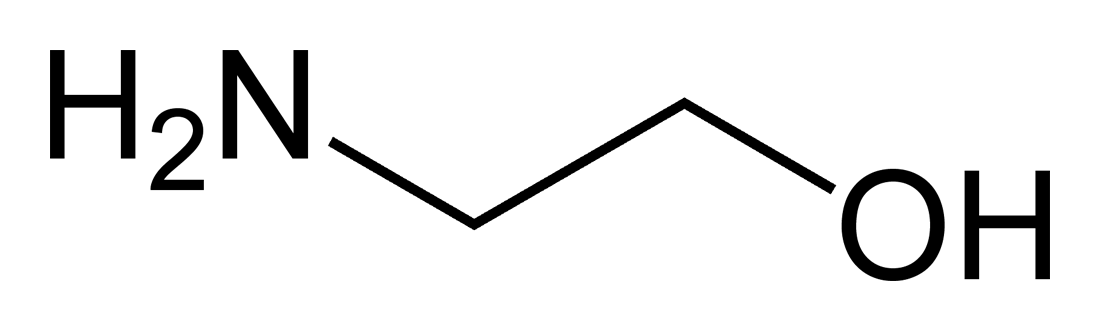 Skeletal formula of the ethanolamine (2-aminoethanol) molecule, C2H7NO, in the usual straight-line conformation.